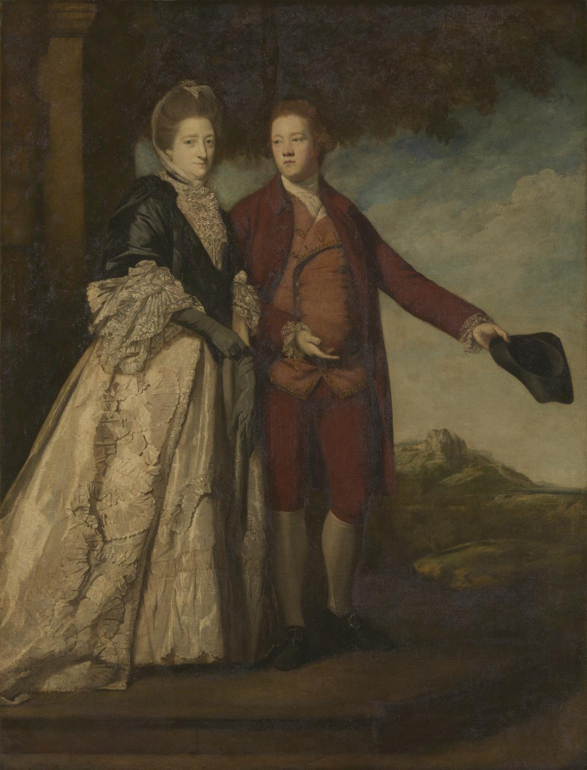 Sir Watkin Williams-Wynn, 4th Baronet (1749-1789) and his mother.